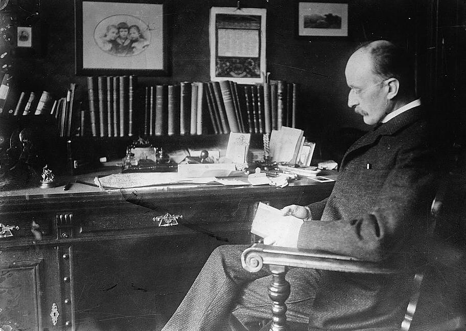 Dr. Max Planck